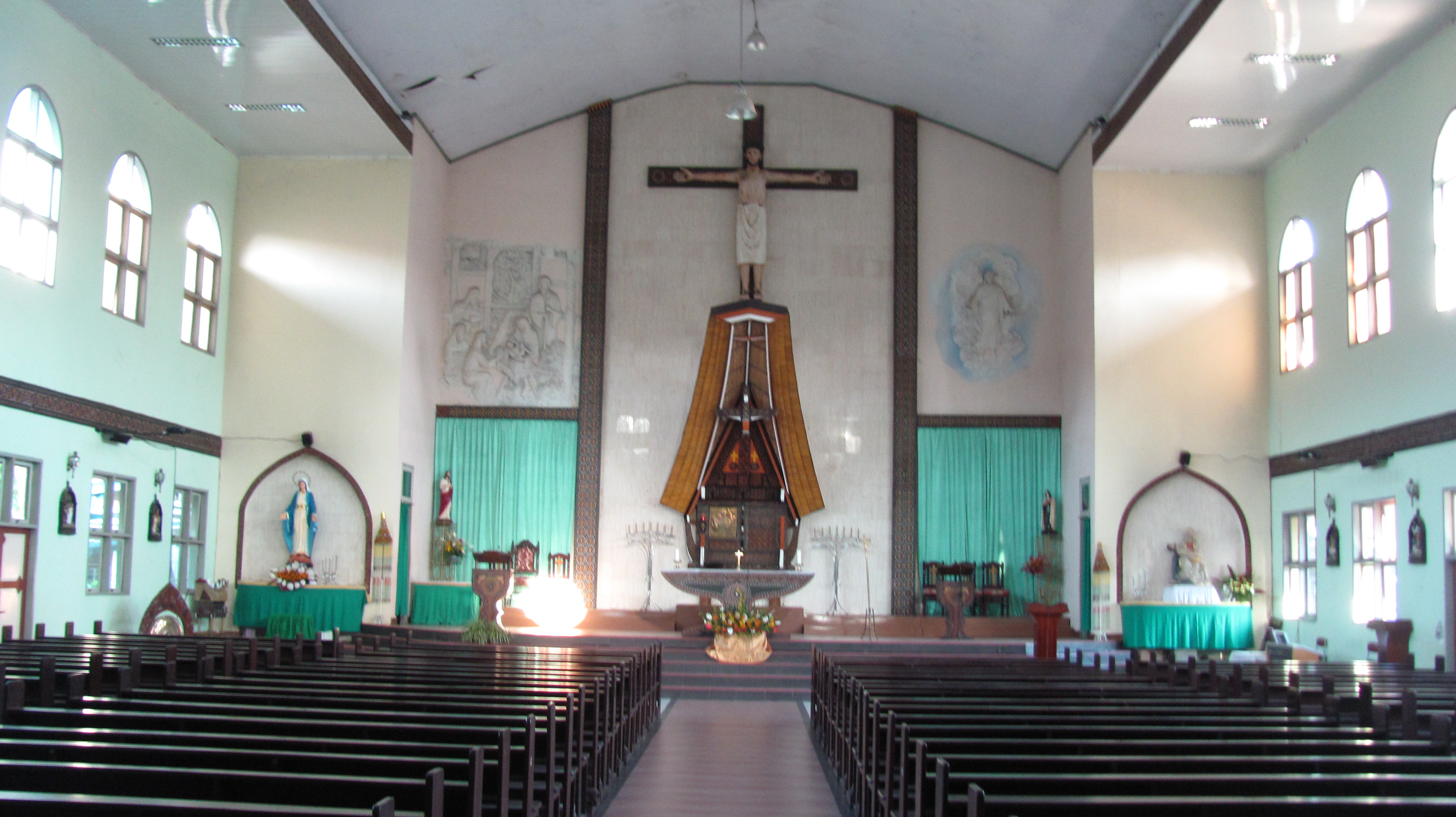 Catholic Church, Rantepao, Sulawesi, Indonesia